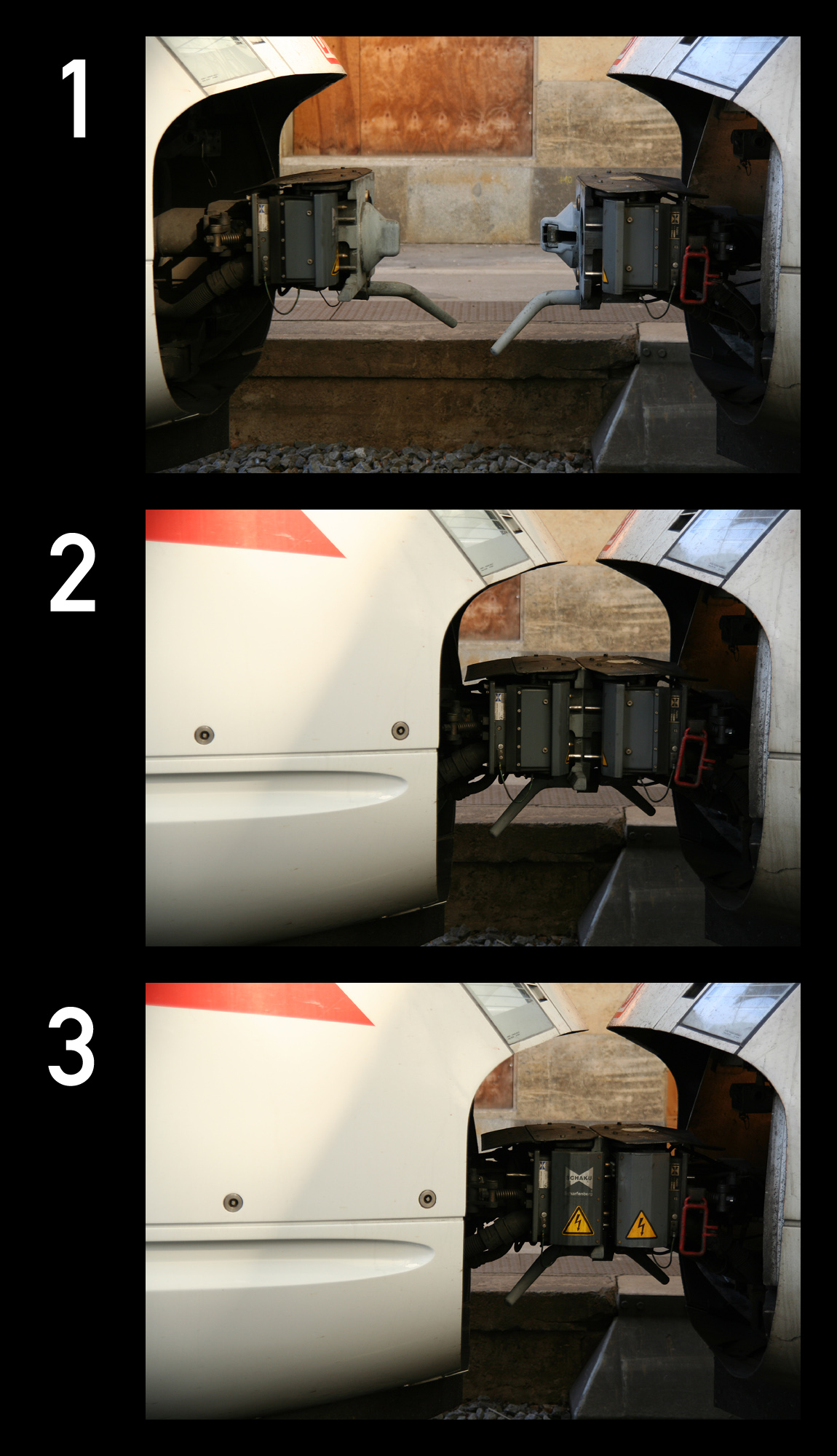 Two ICE-T trains coupling. On picture #1 both trains are ready to be coupled, picture #2 shows the trains joined mechanically, picture #3 shows the trains coupled mechanically and electrically.